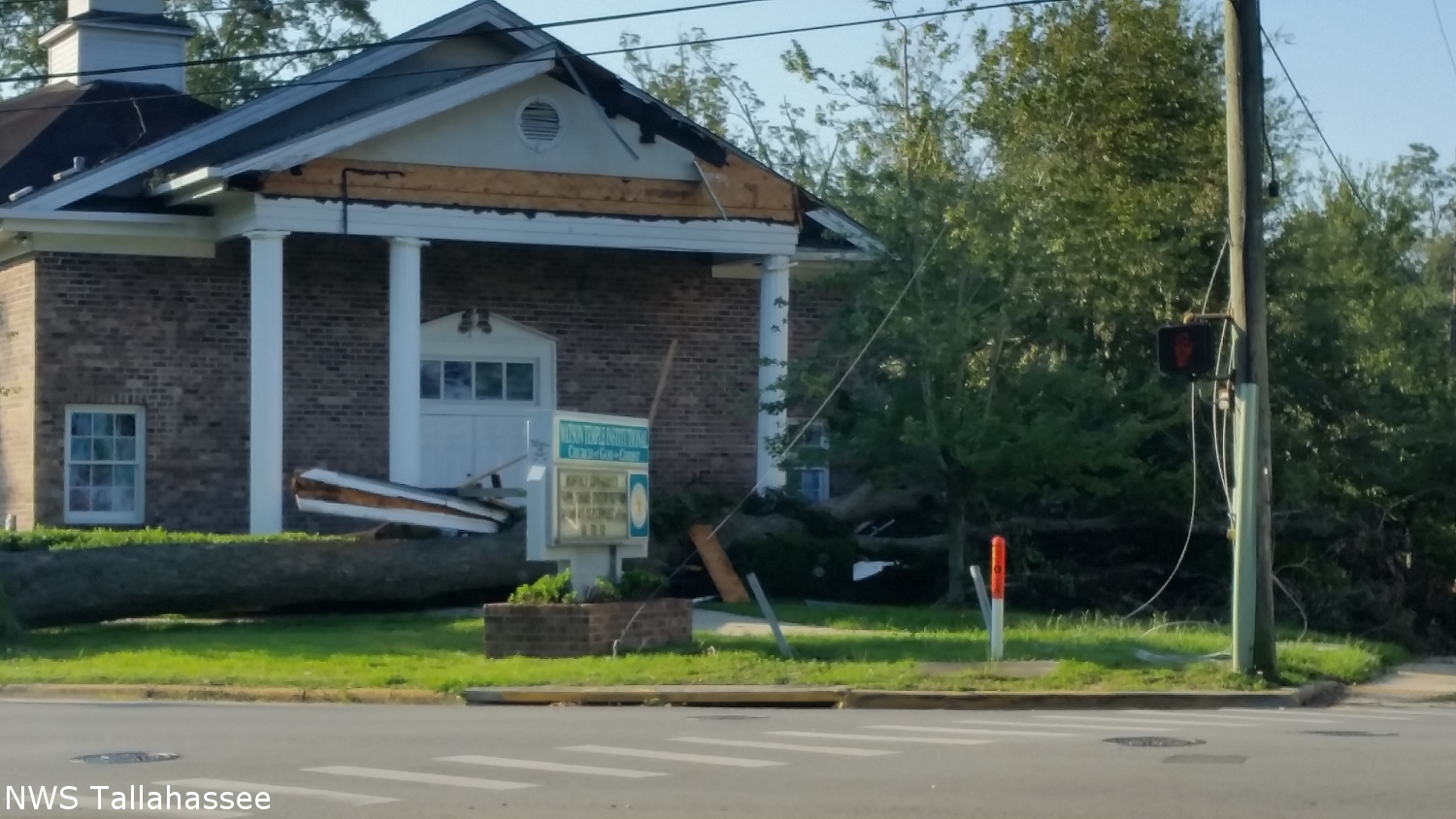 A church in Tallahassee, Florida, damaged by Hurricane Hermine in September 2016